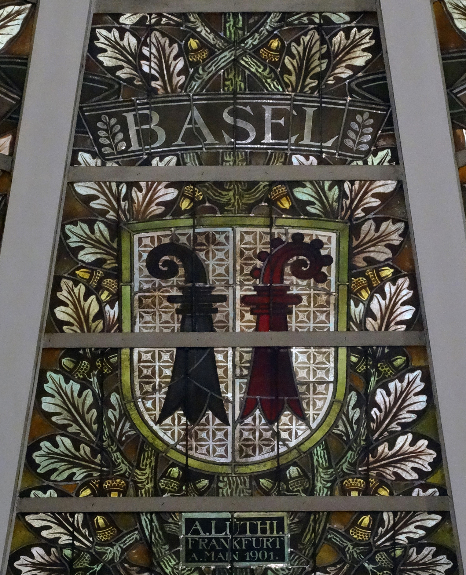 Federal Palace of Switzerland - stained glass windows of canton of Bale